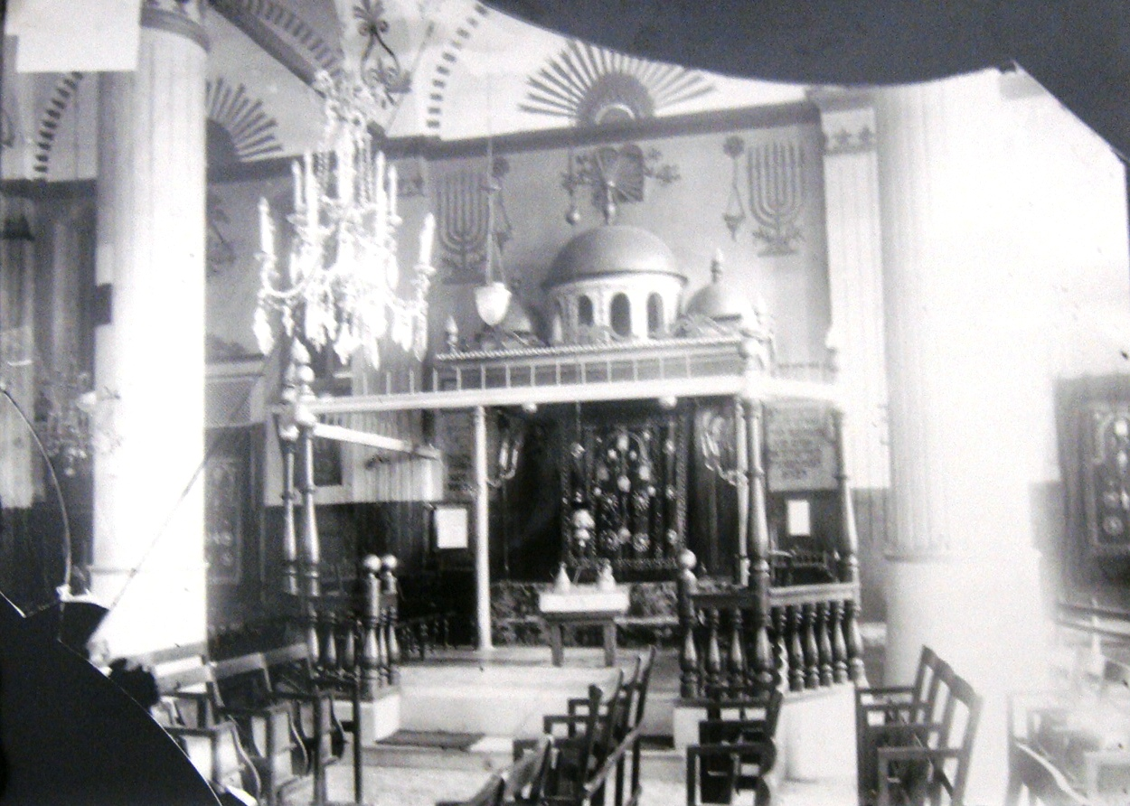 Altar of Jewish "Kal di Aragon" in Bitola, photographed between the two world wars 1918-1941 (damaged glass plate) This media file is produced by Wikipedian in Residence in Category:Wikipedian in Residence at DARM in 2016.